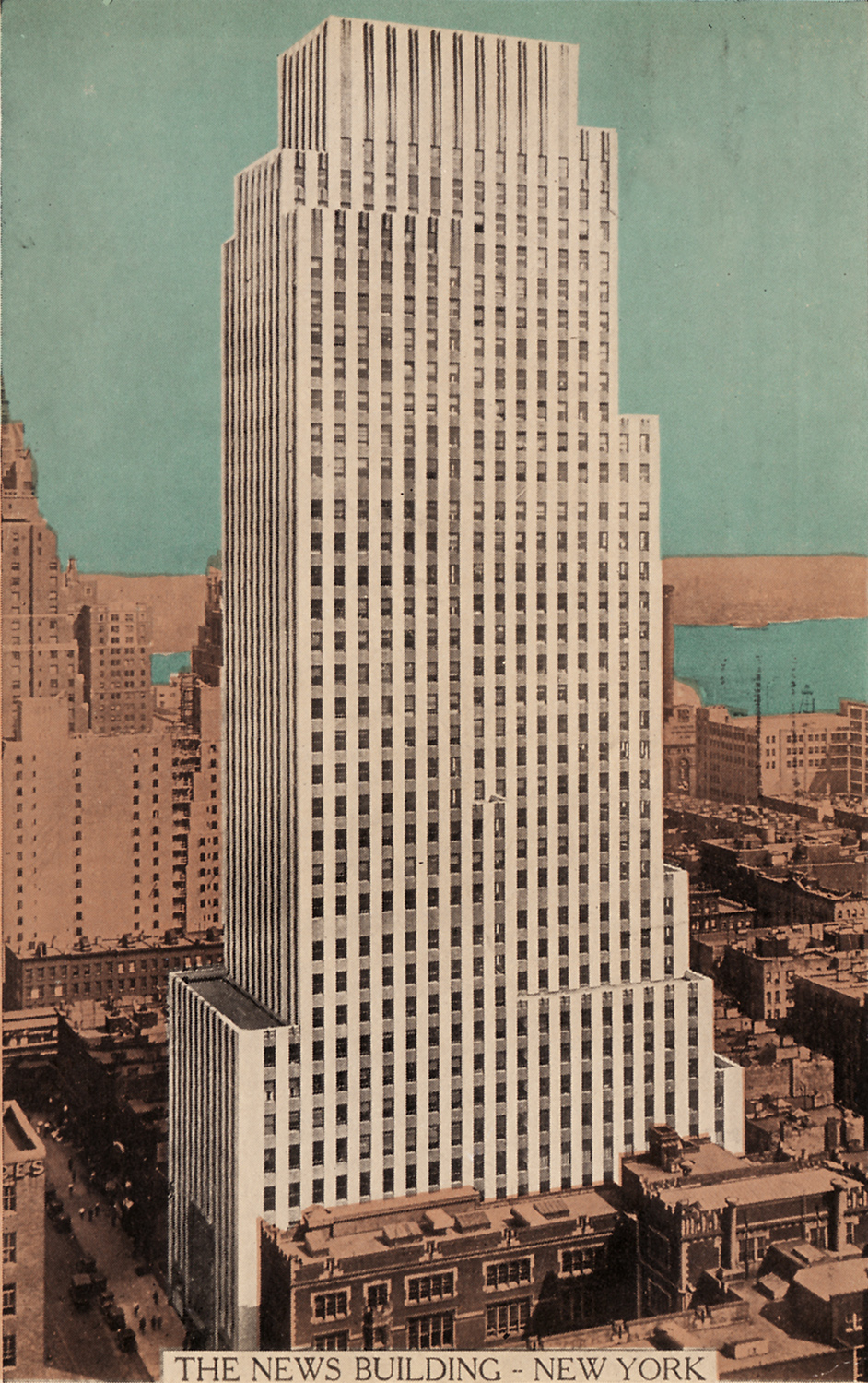 Colorized postcard image of the Daily News Building, New York, New York, looking southeast from Chrysler Building.